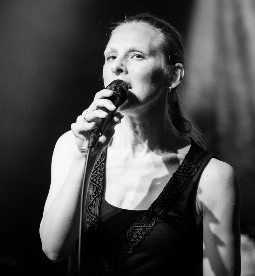 Torun Eriksen with Ensemble Denada at the stage of Energimølla. The concert was part of Kongsberg Jazzfestival and took place on 07. July 2017. Lineup: Torun Eriksen (vocal) Frank Brodahl (trumpet) Marius Haltli (trumpet) Anders Eriksson (trumpet) Even Kruse Skatrud (trombone) Nils Andreas Granseth (trombone) Frode Nymo (saxophone) Børge-Are Halvorsen (alto saxophone) Atle Nymo (tenor saxophone) Tina Lægreid Olsen (baritone saxophone) Olga Konkova (piano) Jens Thoresen (guitar) Per Mathisen (bass guitar) Håkon Mjåset Johansen (drums)